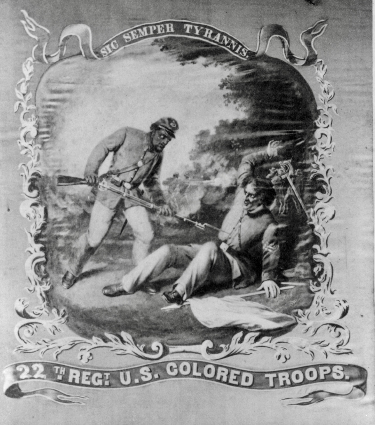 LOC metadata Title: Sic semper tyrannis - 22th Regt. U.S. Colored Troops Related Names: Bowser, David Bustill, 1820-1900, artist Date Created/Published: [between 1860 and 1870] Medium: 1 photographic print on carte de visite mount : albumen. Summary: Regimental flag depicting African American soldier bayoneting a fallen Confederate soldier. Reproduction Number: LC-USZ62-23096 (b&w film copy neg.) Rights Advisory: No known restrictions on publication. Call Number: LOT 6592, no. 132 USE SURROGATE [P&P] Repository: Library of Congress Prints and Photographs Division Washington, D.C. 20540 USA Notes: Photograph of painting by Bowser. In album: [U.S. army officers and other persons of the Civil War period / John White Geary, comp. 1861-1865], no. 132, surrogate p. 33 (lower right - missing). Surrogate available as color laser copy in P&P Reading Room. Subjects: African Americans--Military service--1860-1870. Military standards--1860-1870. United States--History--Civil War, 1861-1865. Format: Albumen prints--1860-1870. Cartes de visite--1860-1870. Paintings--Reproductions--1860-1870. Collections: Miscellaneous Items in High Demand Bookmark This Record